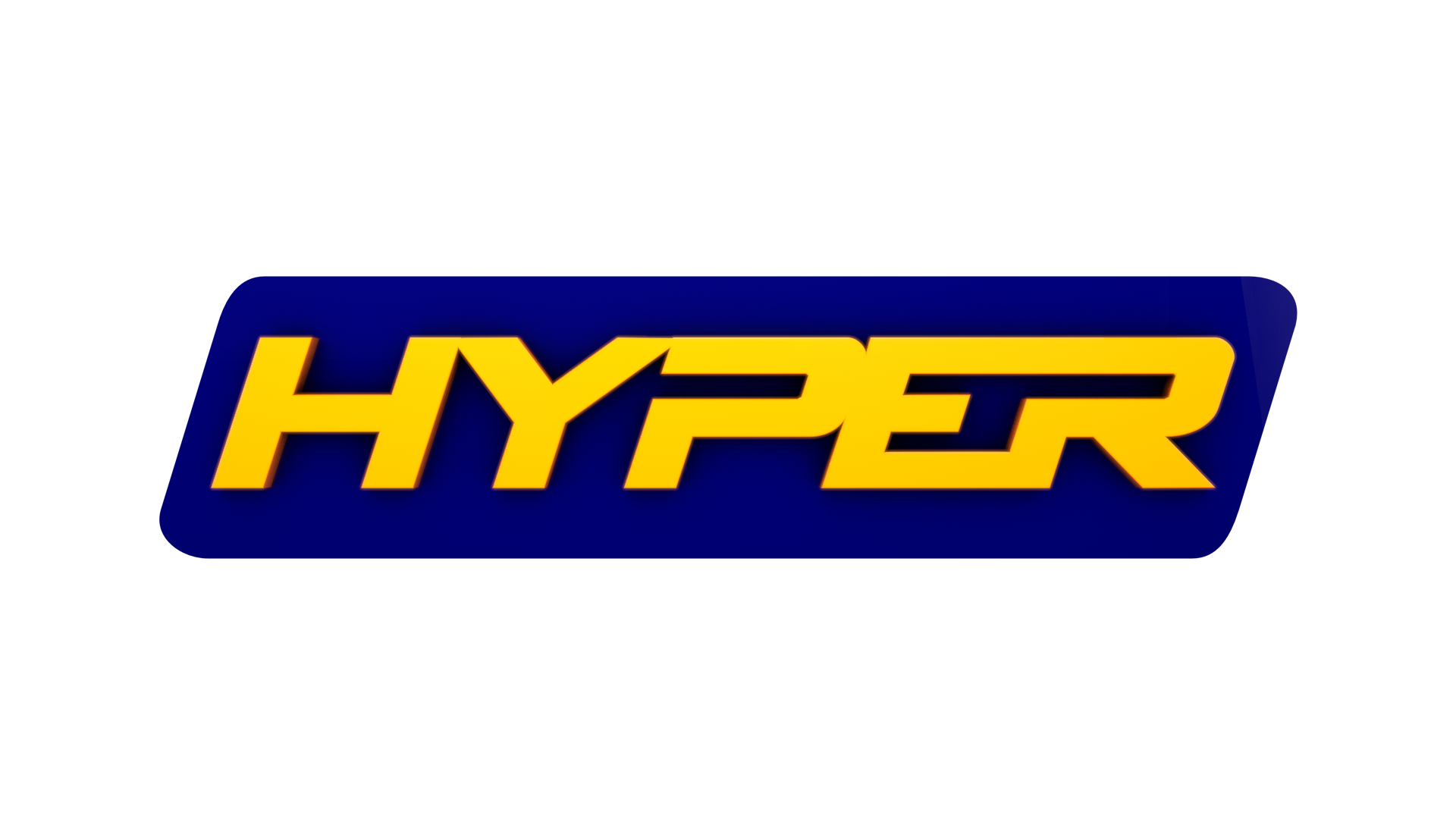 HYPER official logo. A Cignal TV channel.